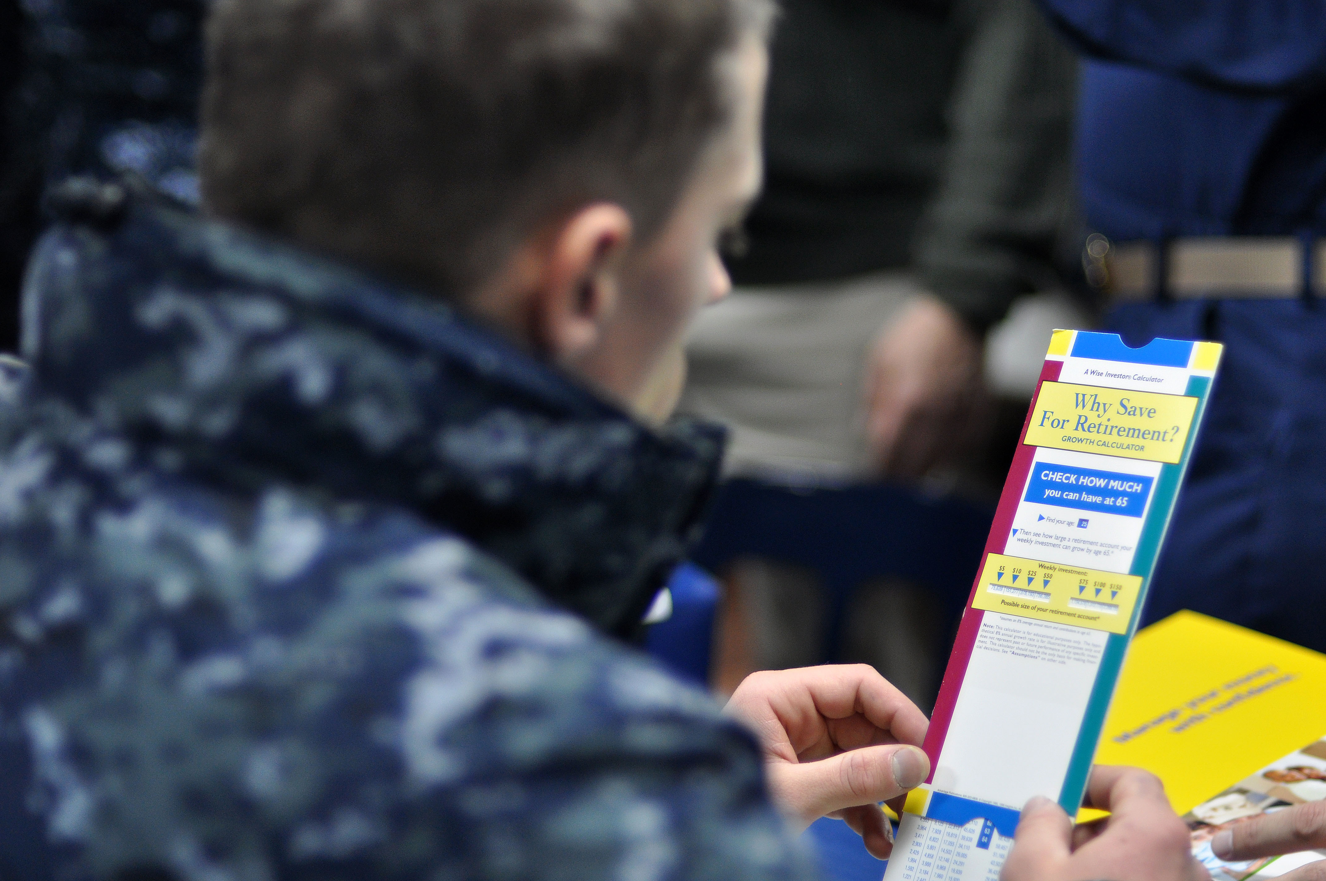 YOKOSUKA, Japan (March 4, 2011) Fire Controlman 2nd Class Karl Weber, from Rome, Ga., reads a pamphlet about how to save for retirement during a Military Saves Campaign open house on the mess decks of the Ticonderoga-class guided-missile cruiser USS Cowpens (CG 63). The Military Saves Campaign was created to help Sailors learn how to manage their money and save for the future. (U.S. Navy photo by Mass Communication Specialist 3rd Class Charles Oki/Released)